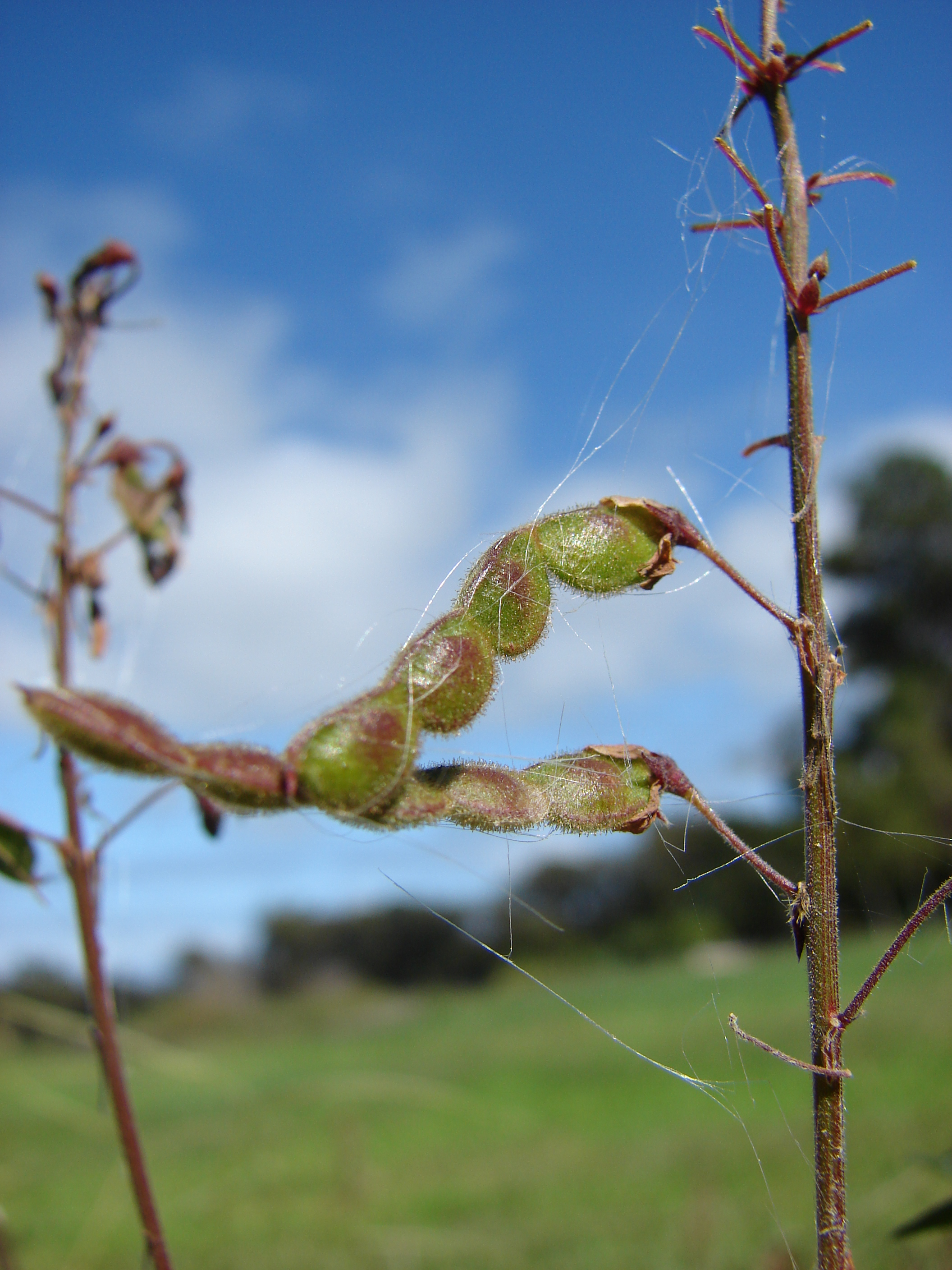 Desmodium incanum (seedpod). Location: Maui, MISC LZ Piiholo